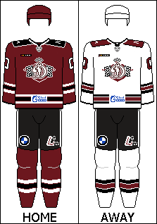 Dinamo Riga jerseys for the 2017/18 KHL season